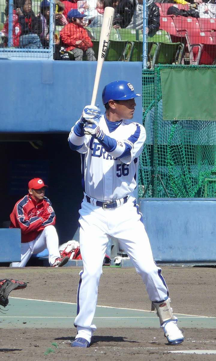 Chunichi Dragons/Koji Nakamura